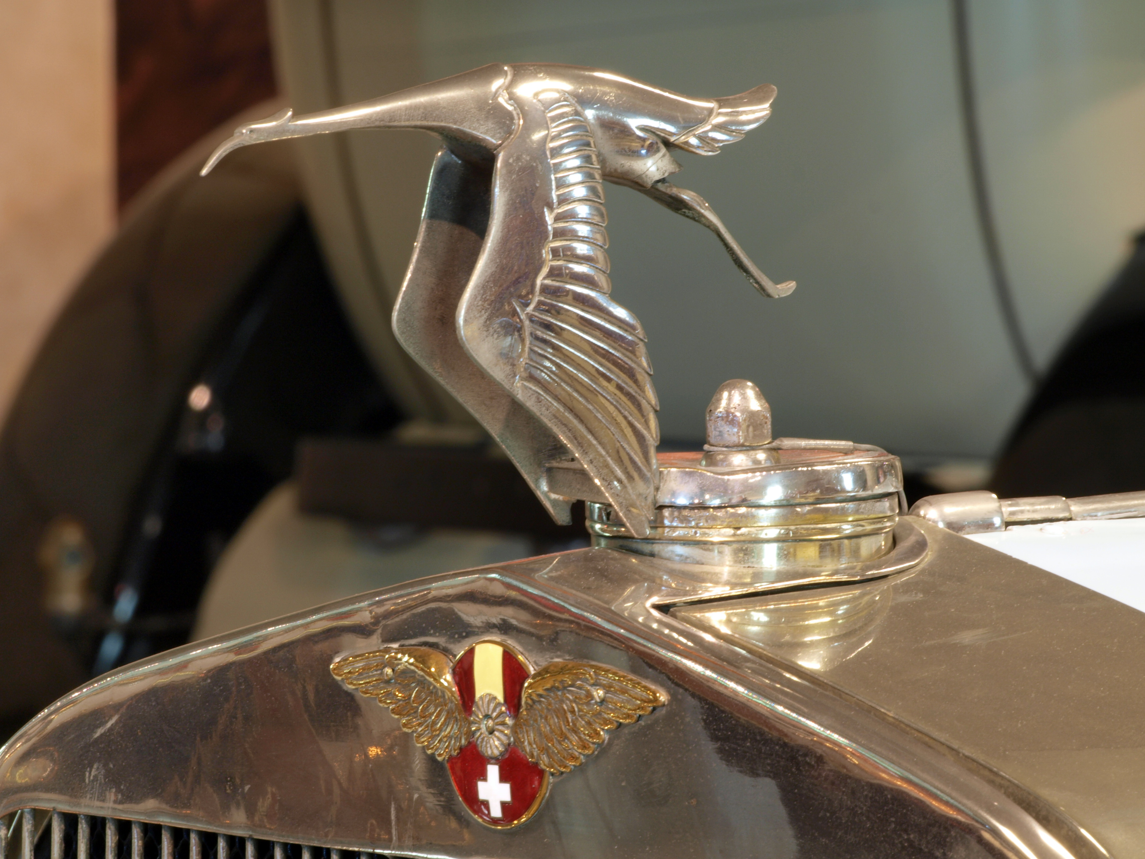 Ornament of a 1924 Hispano-Suiza H6B Million-Guiet Dual-Cowl Phaeton.